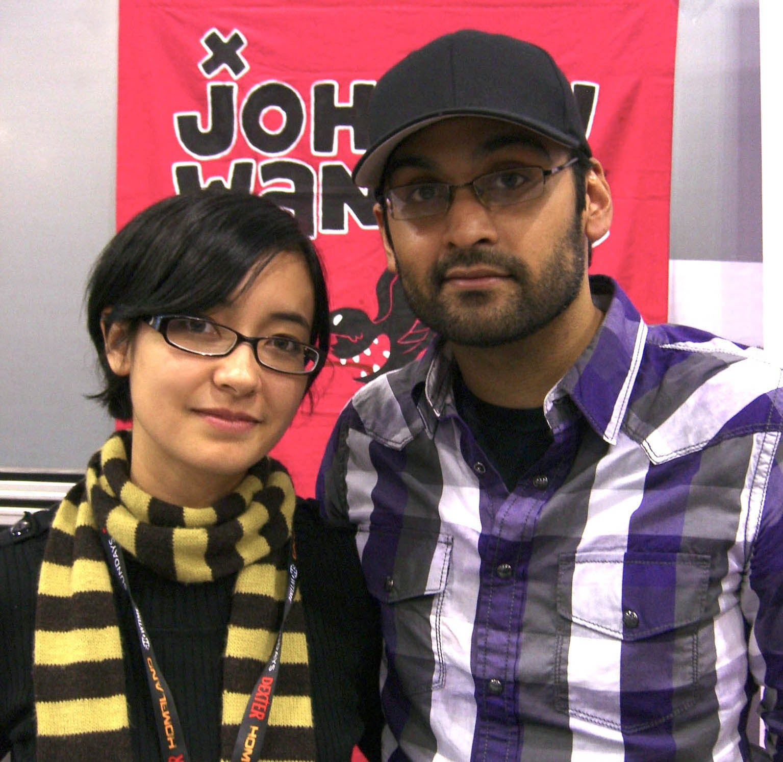 Comics creators Yuko Ota and Ananth Panagariya promoting their webcomic, Johnny Wander, during an October 16, 2011 appearance at the New York Comic Con in Manhattan. This photo was created by Luigi Novi. It is not in the public domain, and use of this file outside of the licensing terms is a copyright violation.